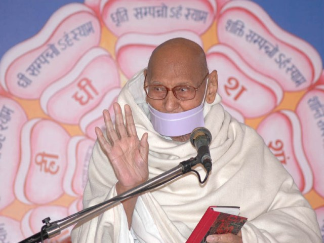 Acharya Mahapragya is the 10th Head of the Jain Shwetamber Terapanth sect. He is great philosopher, author and social reformer